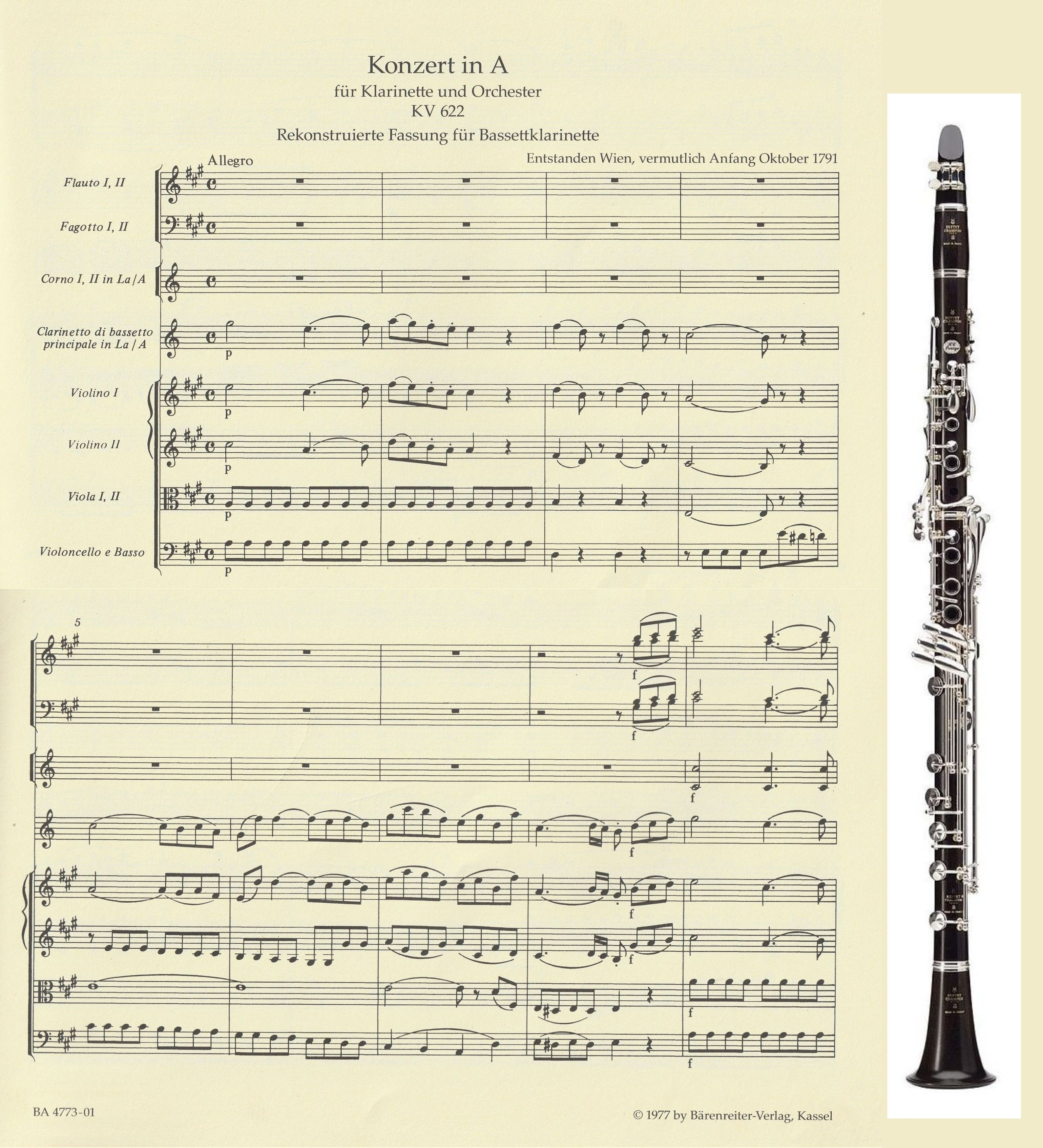 Combination of files K.622.jpg and Leitner+Kraus Bassettklarinette.png